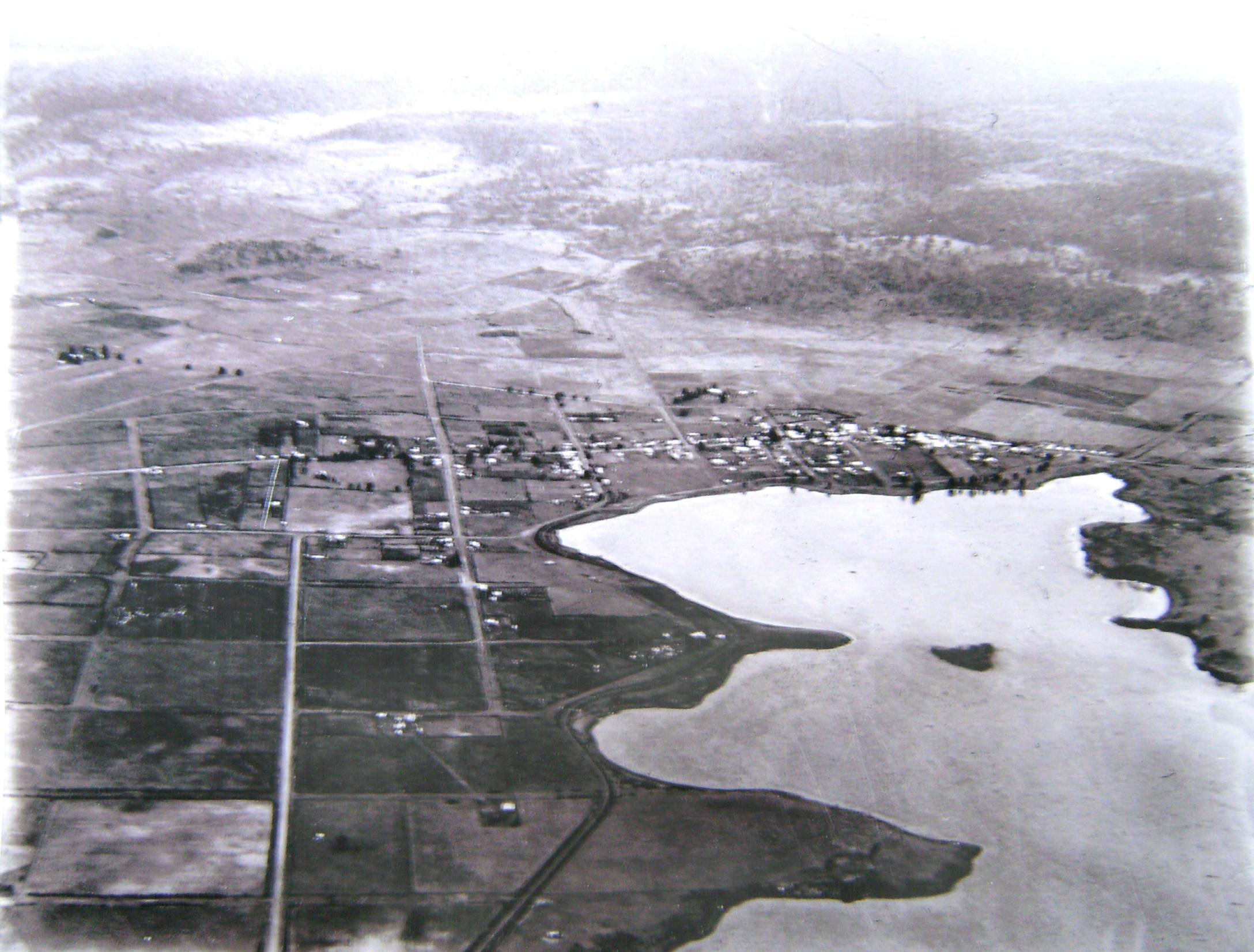 Undated aerial photo of Oatlands looking east, the Oatlands Railway can be seen running through the center of the image close to the lake.